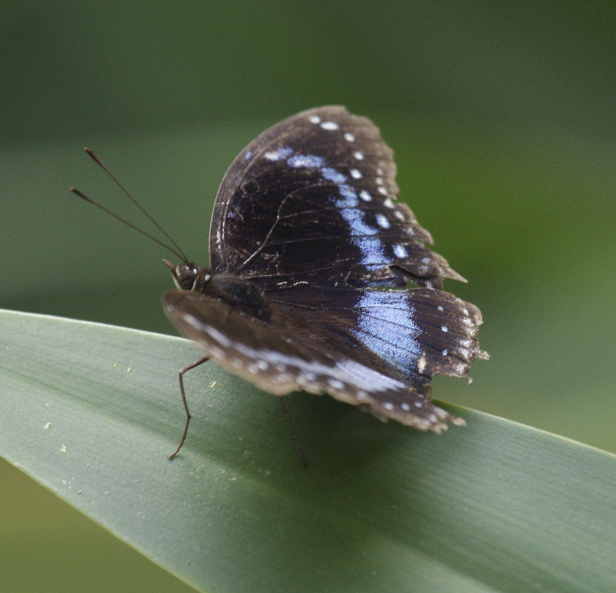 Blue-banded Eggfly (Hypolimnas alimena) Portland Roads, Cape York, North Queensland, Australia